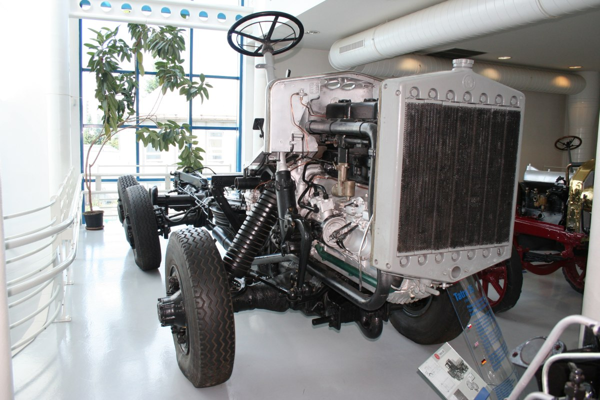 Tatra 25 chassis at Tatra museum